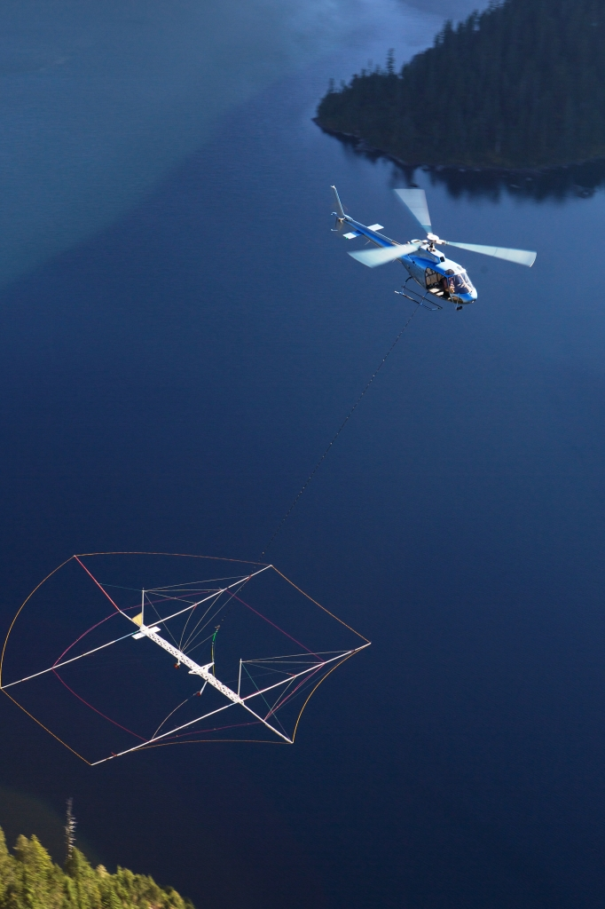 Airborne time domain electromagnetic survey.